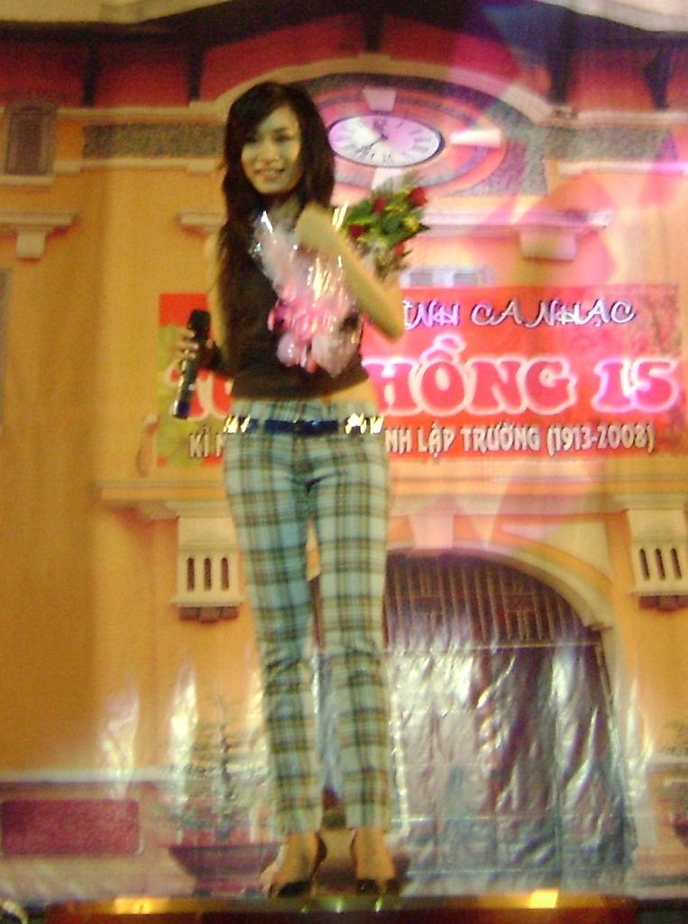 This is a snapshot about Minh Thư, who is one of the most famous singers and song writers in Vietnam.